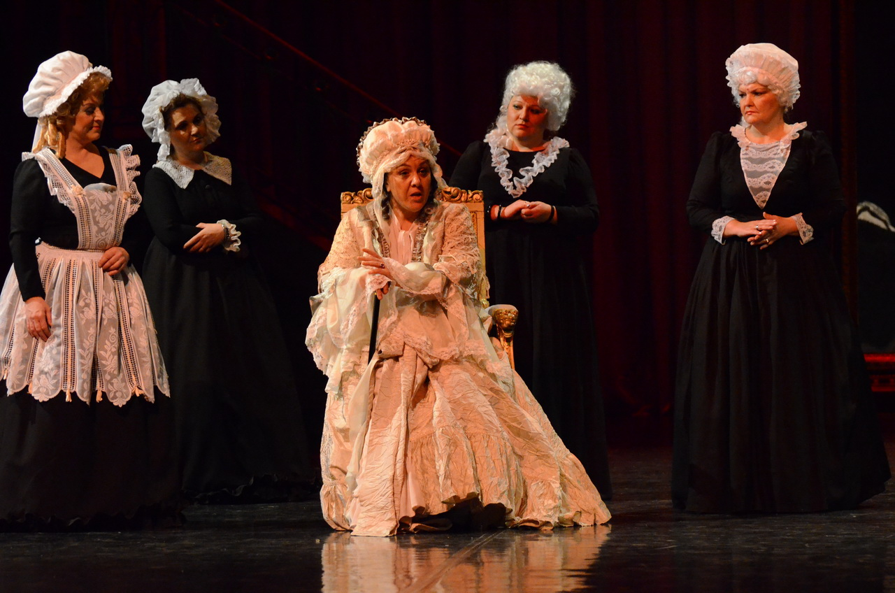 "The Queen of Spades" by Pyotr Ilyich Tchaikovsky; directed by Oleg Meljnikov; Opera of the Serbian National Theatre, Novi Sad, 2010/11, Marina Pavlović Barać Srpski (latinica): "Pikova dama" Petra Iljiča Čajkovskog, u režiji Olega Meljnikova; Opera Srpskog narodnog pozorišta, Novi Sad; 2010/11, Marina Pavlović Barać Српски (ћирилица): "Пикова дама" Петра Иљича Чајковског, у режији Олега Мељникова; Опера Српског народног позоришта, Нови Сад; 2010/11, Марина Павловић Бараћ